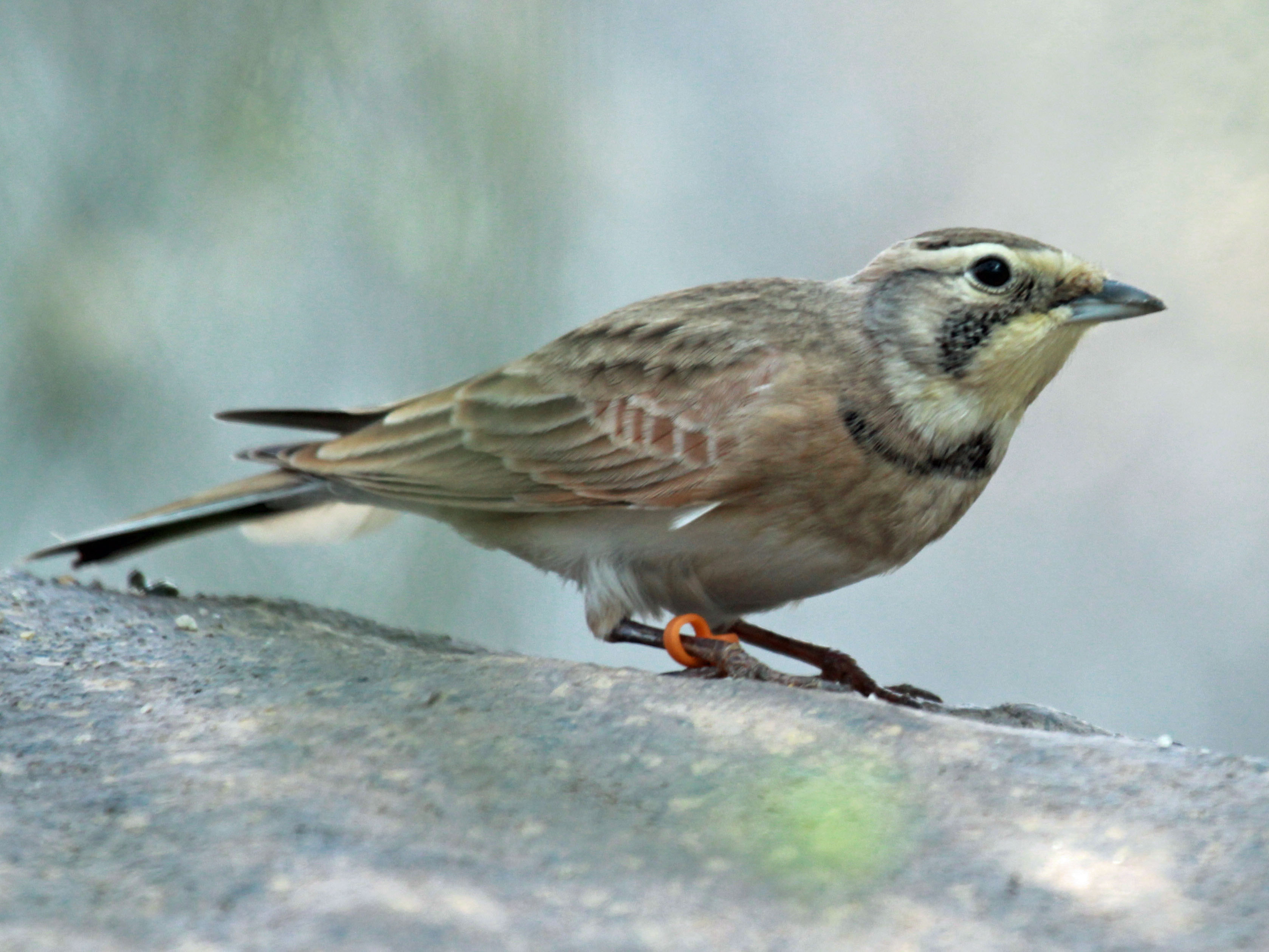 Horned Lark ♂ at the North Carolina Zoo in Ashboro, North Carolina